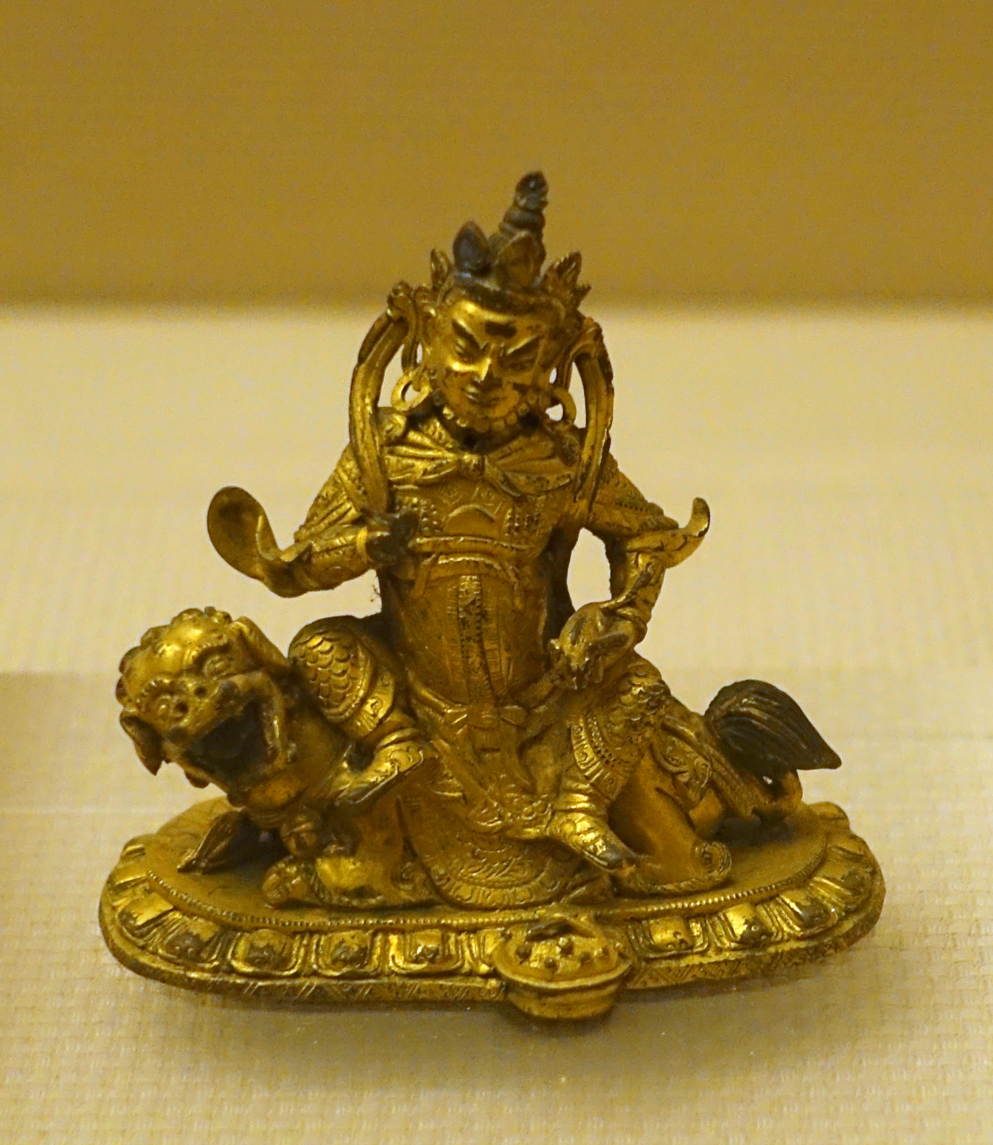 Exhibit in the Sichuan Provincial Museum (四川省博物院), also known as the Sichuan Museum, 251 Huanhua S Road, Chengdu, Sichuan, China. This work is old enough so that it is in the public domain.